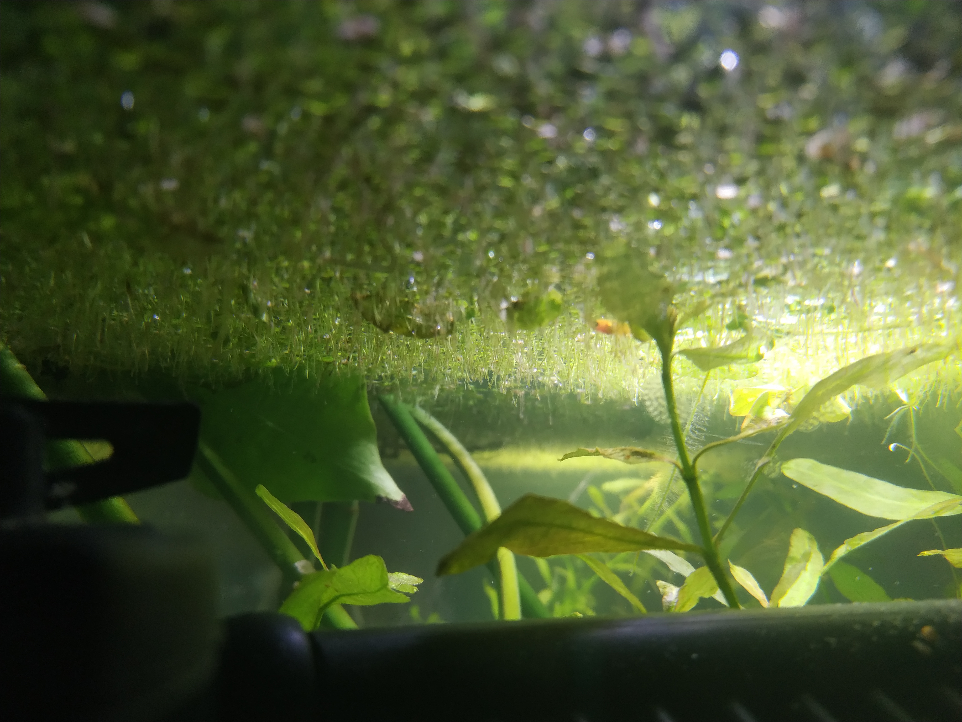 Duckweed